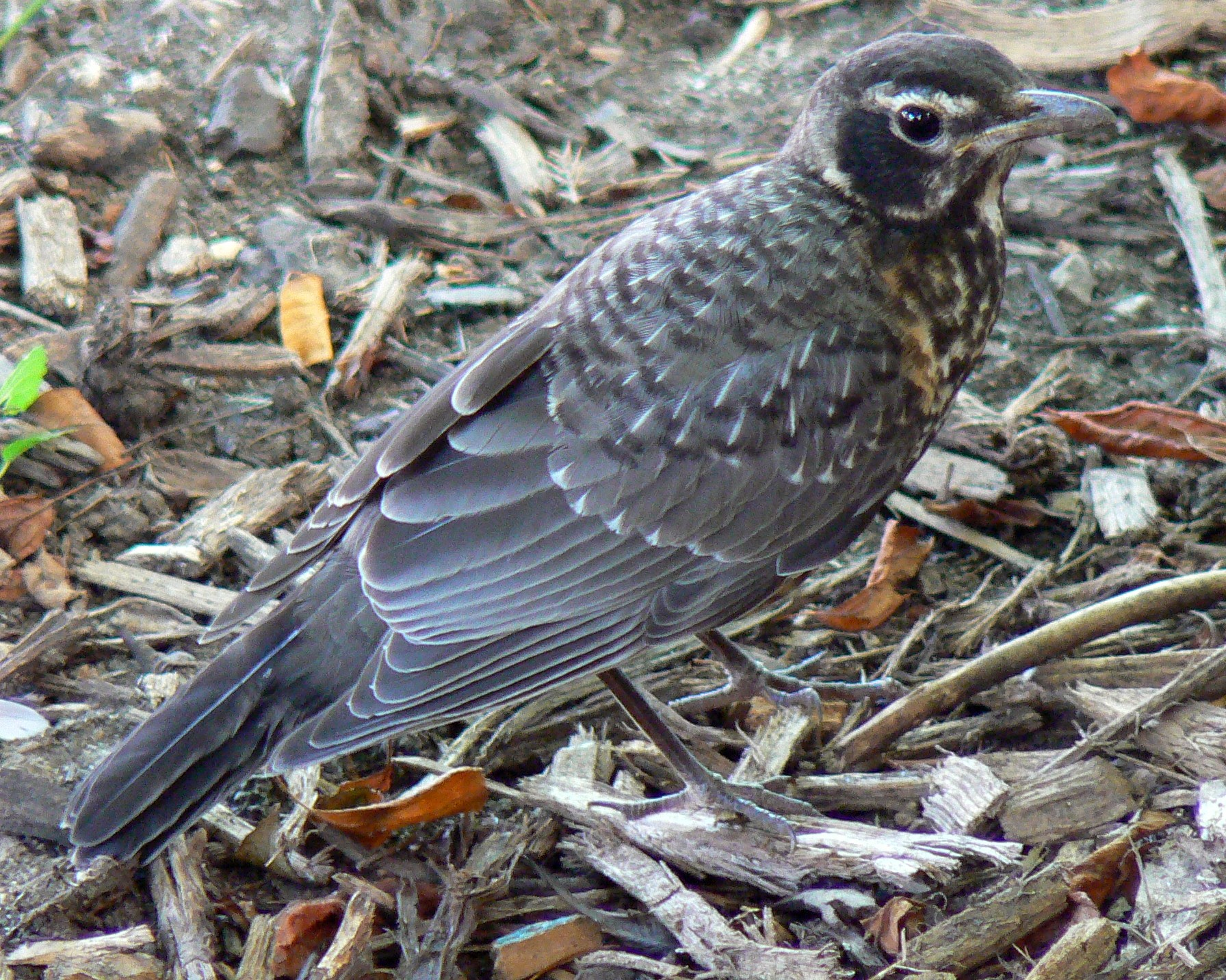 Immature American Robin